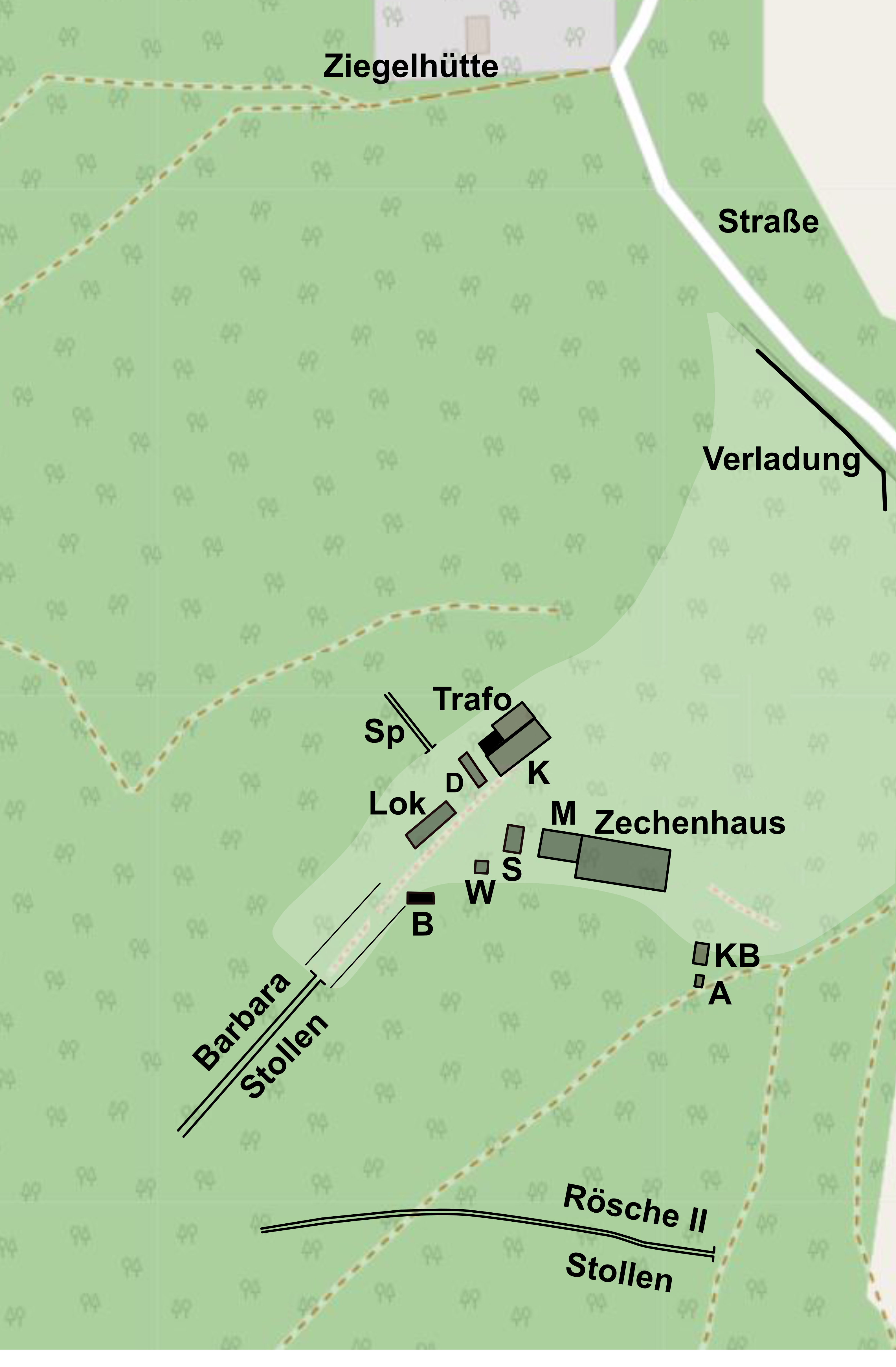 Zollhaus mine. Map of the Barbara adit area near Mudershausen in the 1950ties. The coordinate given is the coordinate of the entry of the Barbara adit. Drawing according to text in Rainer Hübinger: "Chronik der Grube Zollhaus", Band 2, 2003. Map in backgroundː OpenStreetMap contributors.